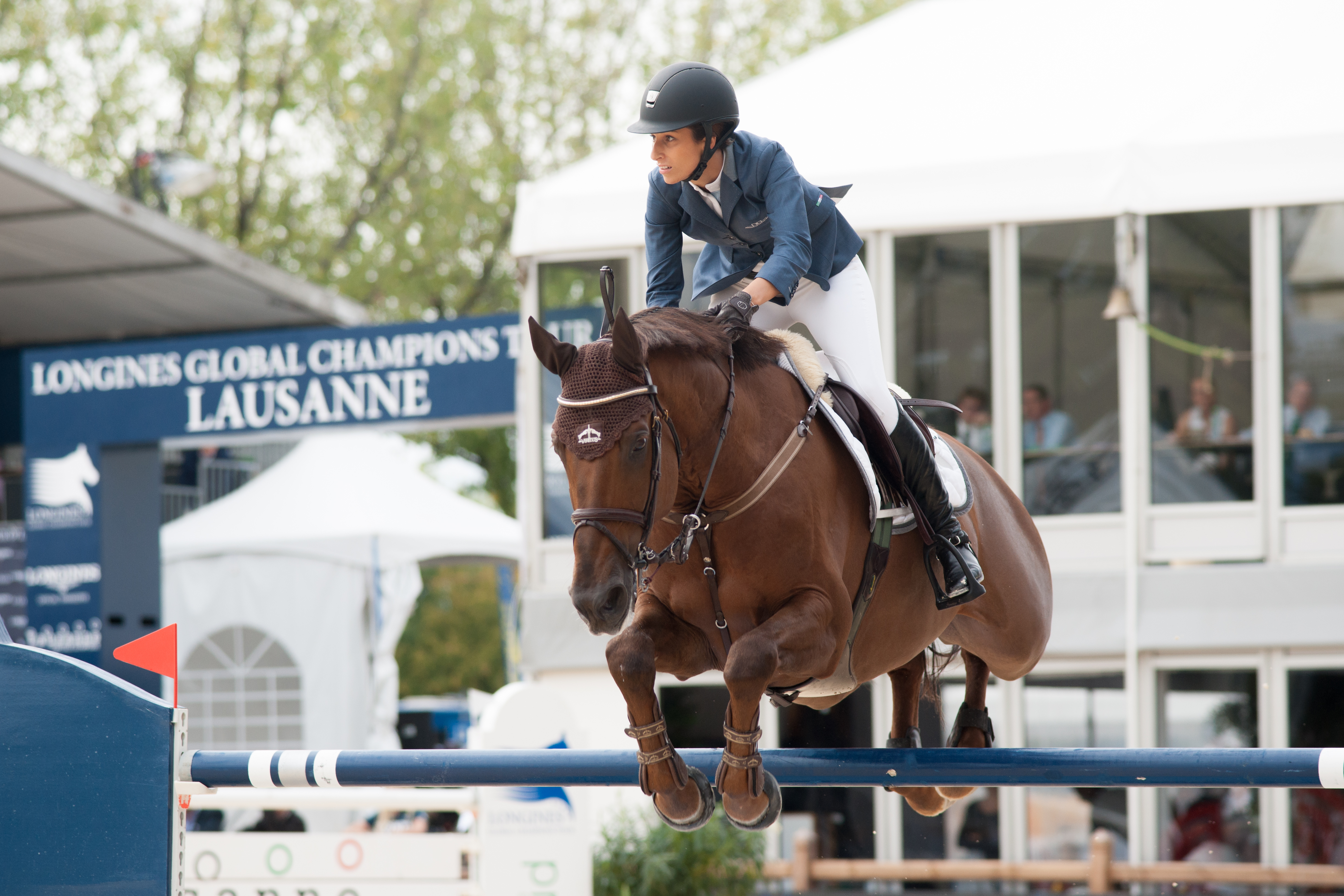 The making of this document was supported by Wikimedia CH. (Submit your project!) For all the files concerned, please see the category Supported by Wikimedia CH. 2013 Longines Global Champions Tour